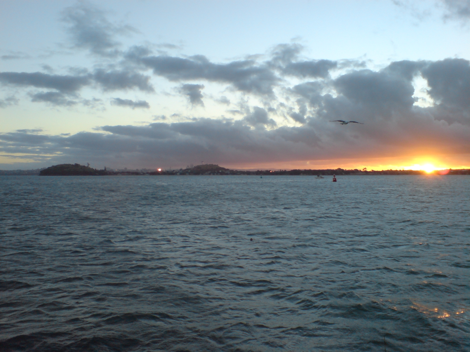 Setting sun at the right hand, and reflected sunlight from a skyscraper in the western part of the Auckland CBD. The shoreline in front is that of North Shore City, New Zealand, with North Head at the left and Mount Victoria in the centre. Taken from near Rangitoto Island on the Hauraki Gulf.